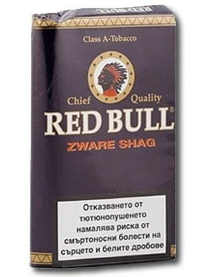 Red Bull Zware shag